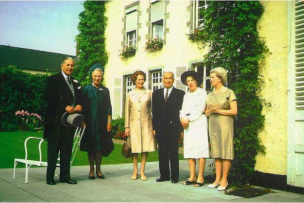 Ruth Stevens at the wedding in Belgium of Richard Goblet d'Alviella to Veronique d'Outremont on 22nd July 1971. She is with Sir Conrad Corfield and Sylvia, June (nee Corfield) and her husband Comte Jean Goblet d'Alviella. Richard used to stay with us in Hampshire.